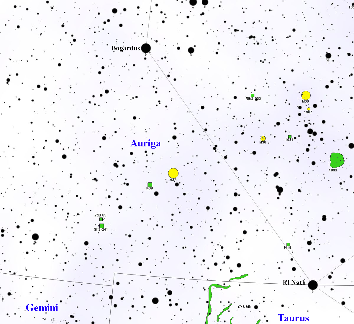 M37 in Auriga constellation map, with DSOs